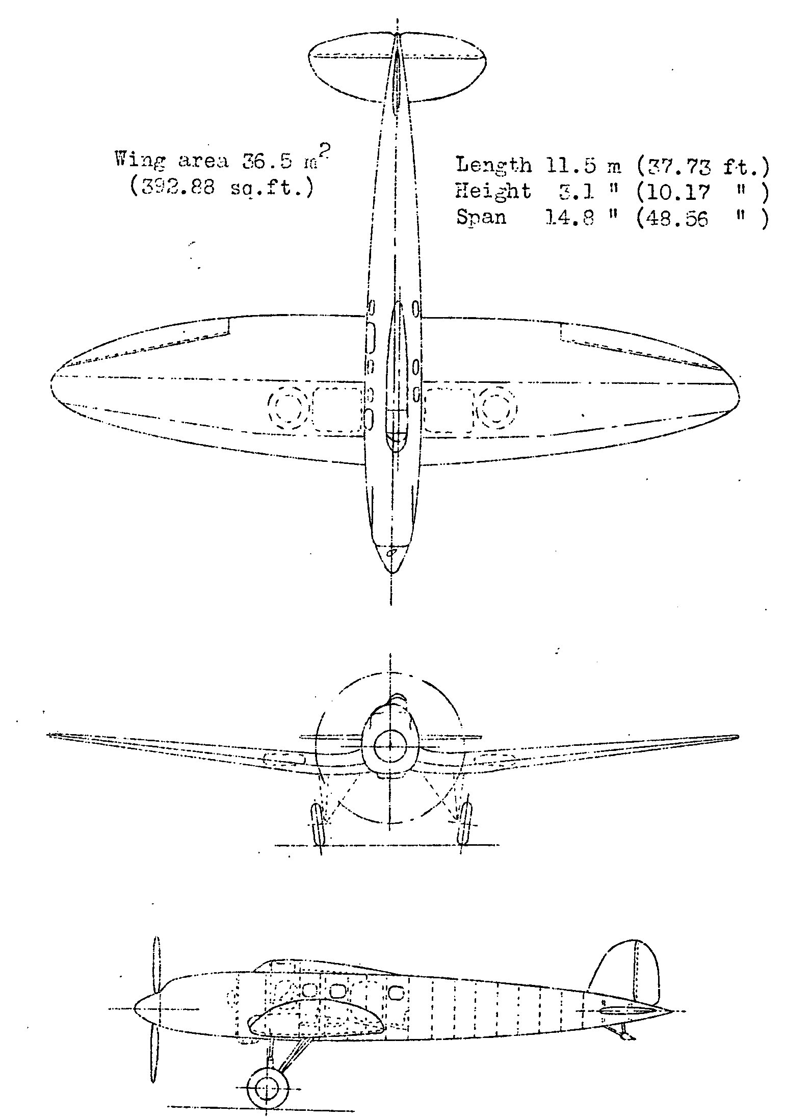 Heinkel He.70 3-view drawing from NACA-AC-183